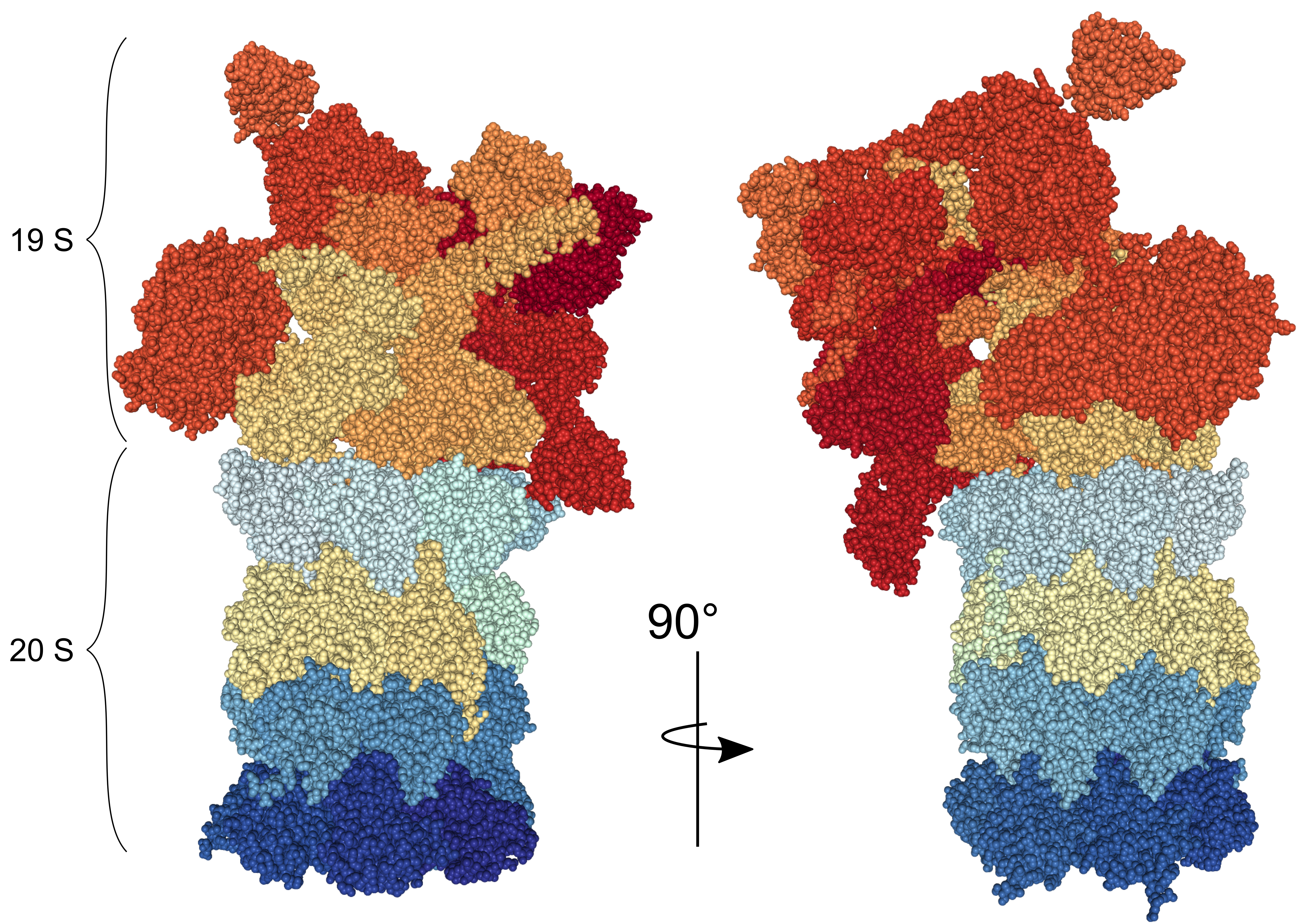 The structure of the yeast 26S proteasome based on the PDB-entry 5MPB, showing the 20S core particle (barrel-shaped structure, bottom) in association with a 19S regulatory particle (shades of red, top). Each protein subunit is individually colored. Spacefill-model generated with the NGL 3D viewer at (original structure was obtained by Wehmer et al. 2017, PNAS, PMID:28115689).